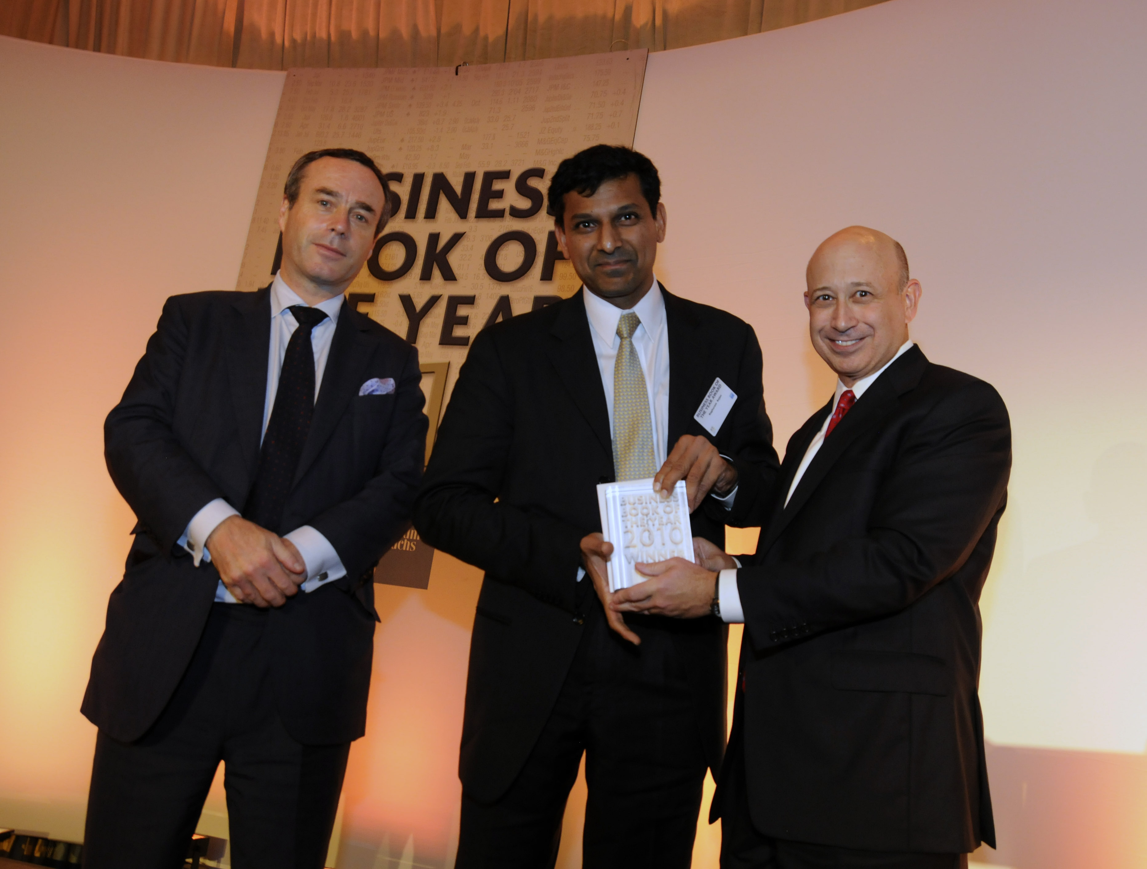 Lionel Barber, Raghuram Rajan and Lloyd Blankfein